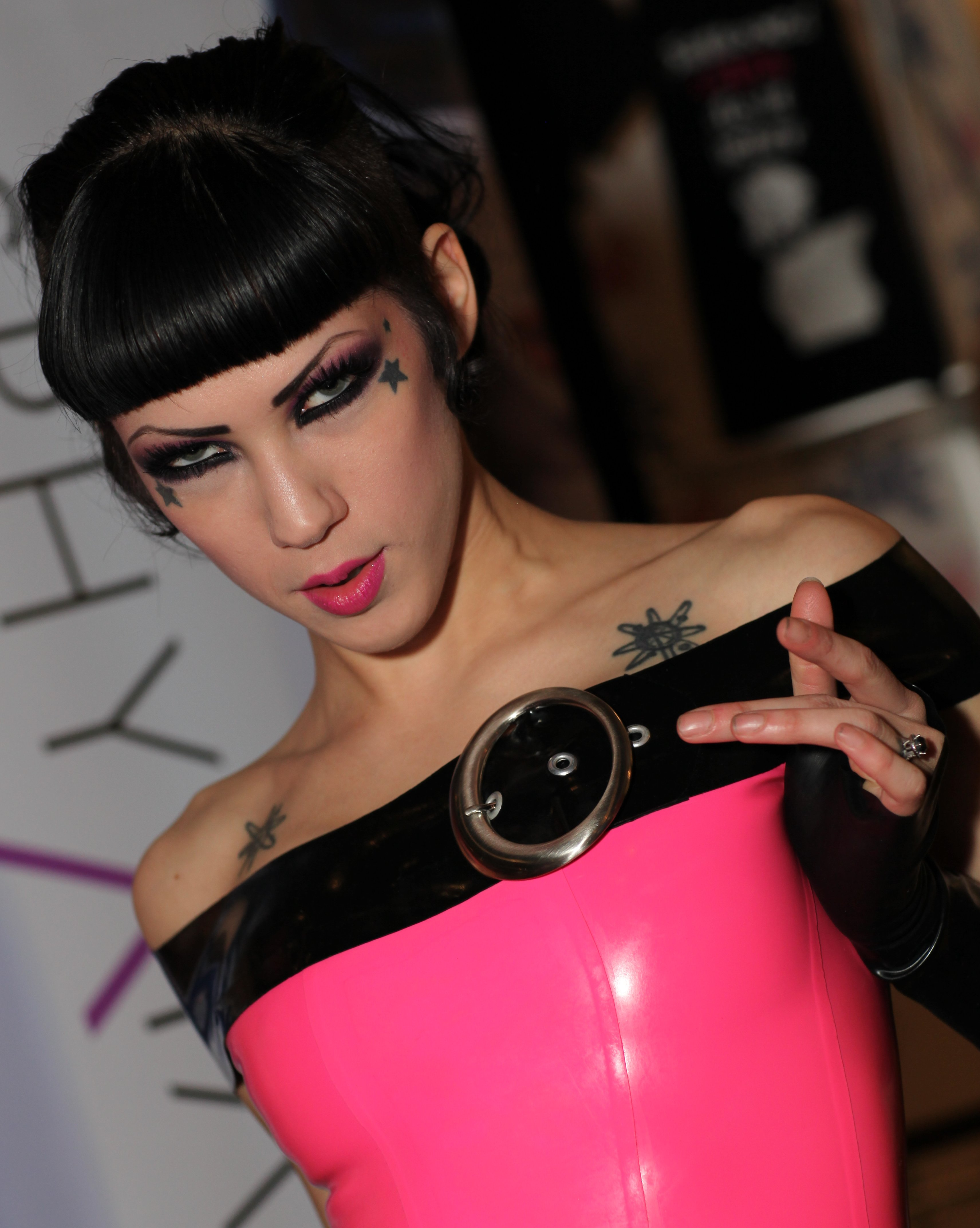 Asphyxia Noir (AsphyxiaNoir) on Twitter Photos from the 2013 AVN Expo & AVN Awards held at the Hard Rock Hotel & Casino in Las Vegas. Photo by Michael Dorausch. Please do tweet these photos but don't remove my copyright info without asking. This photo is licensed under a Creative Commons license. If you use this photo within the terms of the license or make special arrangements to use the photo, please list the photo credit as "Michael Dorausch" and link the credit to .